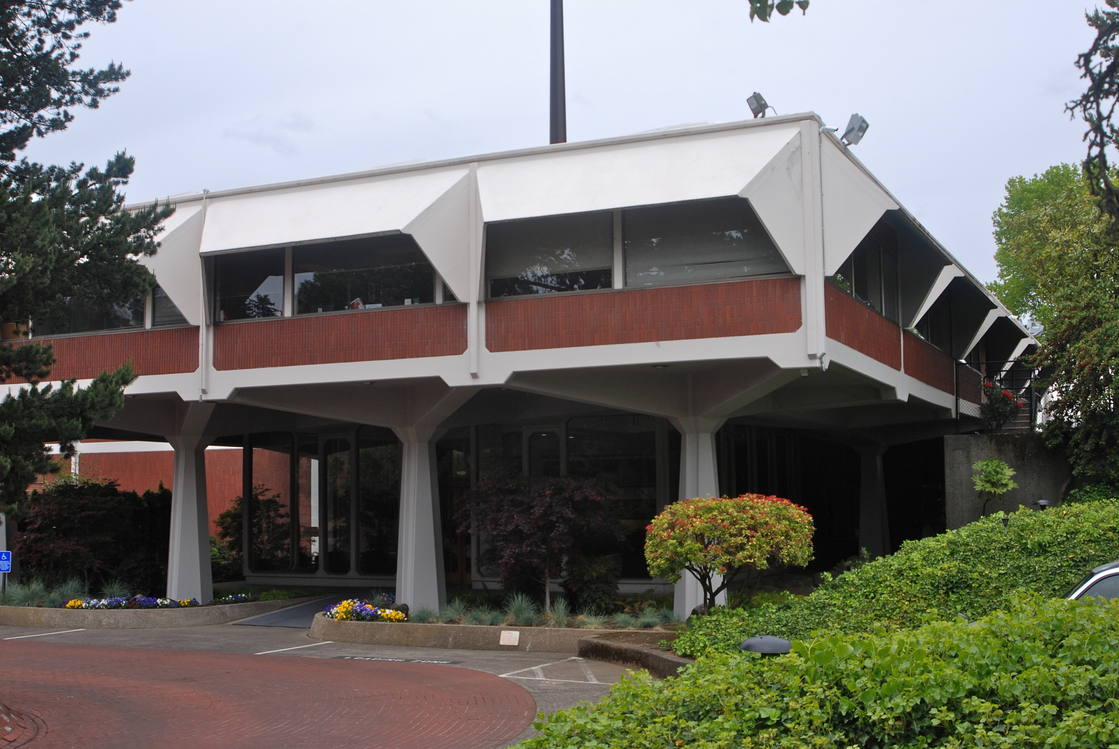 The headquarters and main studios of KGW Television (and formerly also KGW radio), the NBC affiliate in Portland, Oregon, at 1501 S.W. Jefferson Street.